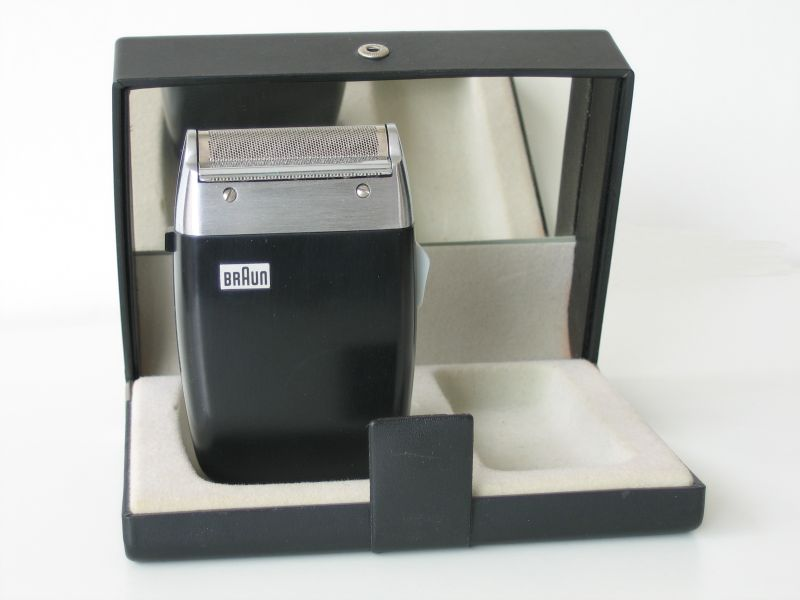 Braun Sixtant (1962)